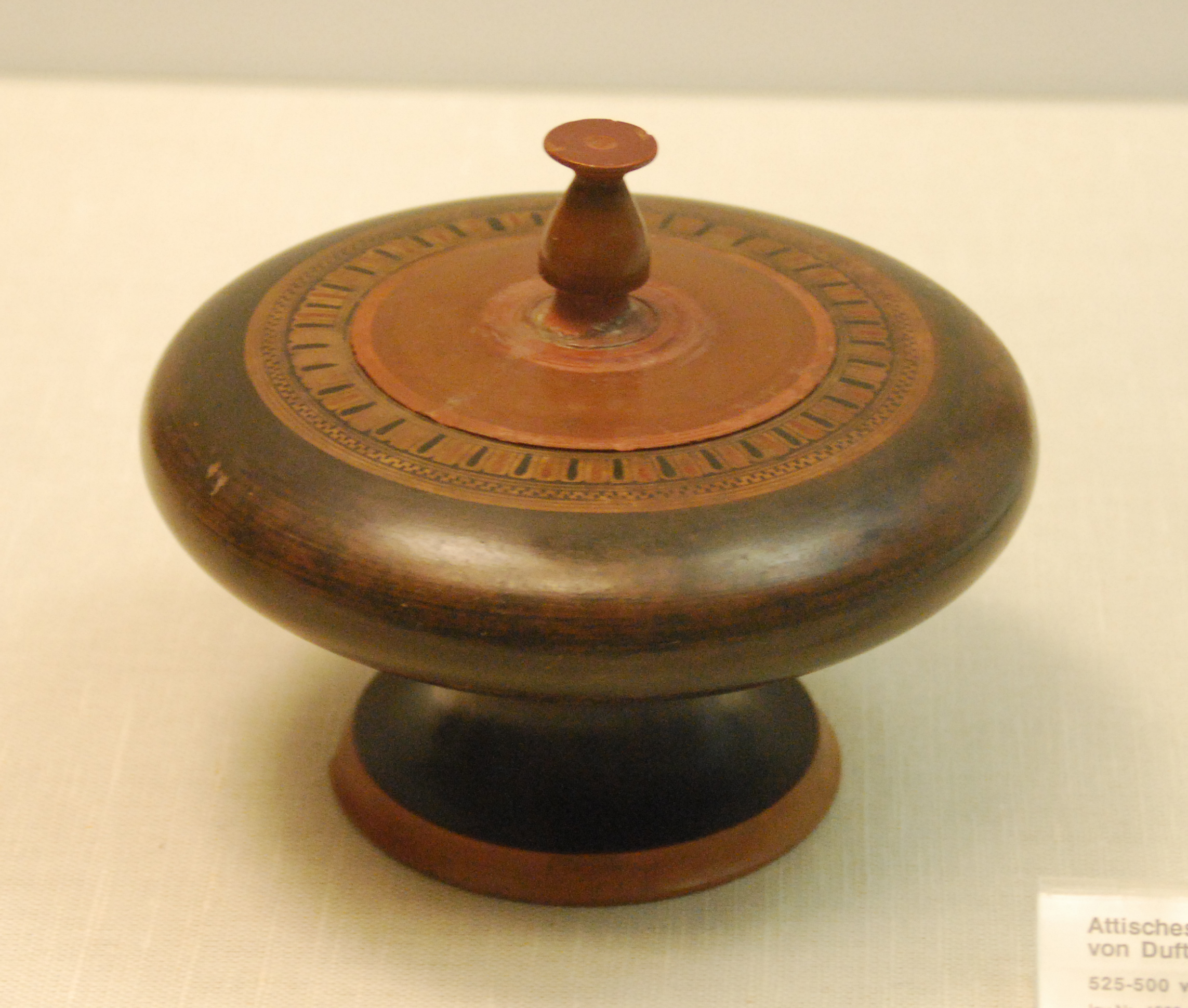 Attic black-gaze Exaleiptron; about 525/500 BC; Museum August Kestner Hanover; Inventary number 1966.44, former collection Dr. E. Kästner